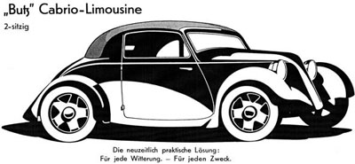 Brochure for the Bungartz Butz, built by German company Bungartz & Co. according to the patents of German engineer Josef Ganz, 1934.